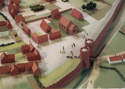 Part of the Worcester City museum collection. Built by Hugh Watson and Dave Austin, and Jeremy Burr; photographed by Museums Worcestershire.